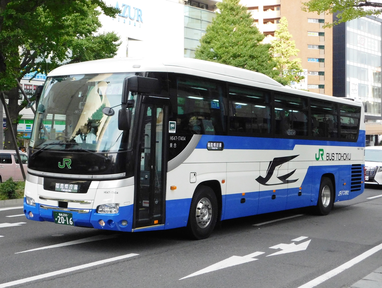 JR bus Tohoku Hino S'elega (2RG-RU1ESDA) on highwaybus "Sendai-Fukushima"